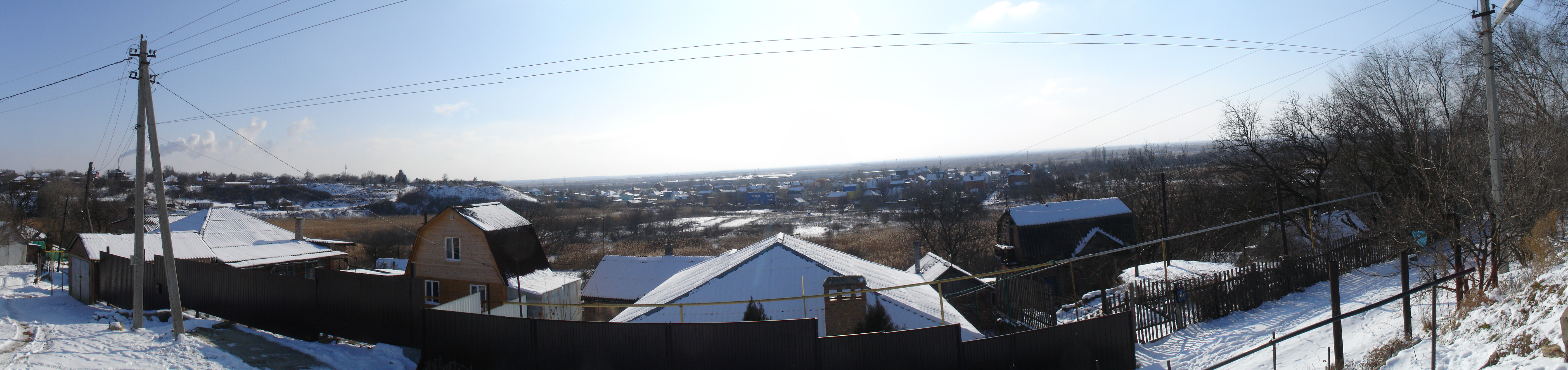 Kalinin village, Myasnikovsky rayon, Rostovskaya oblast, Russia. Panoramic view from the crossover of Hapry railway station.